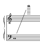 range of celesta